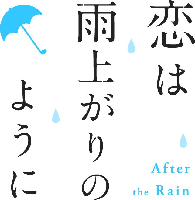 Logo of the manga series After the Rain by Jun Mayuzuki.